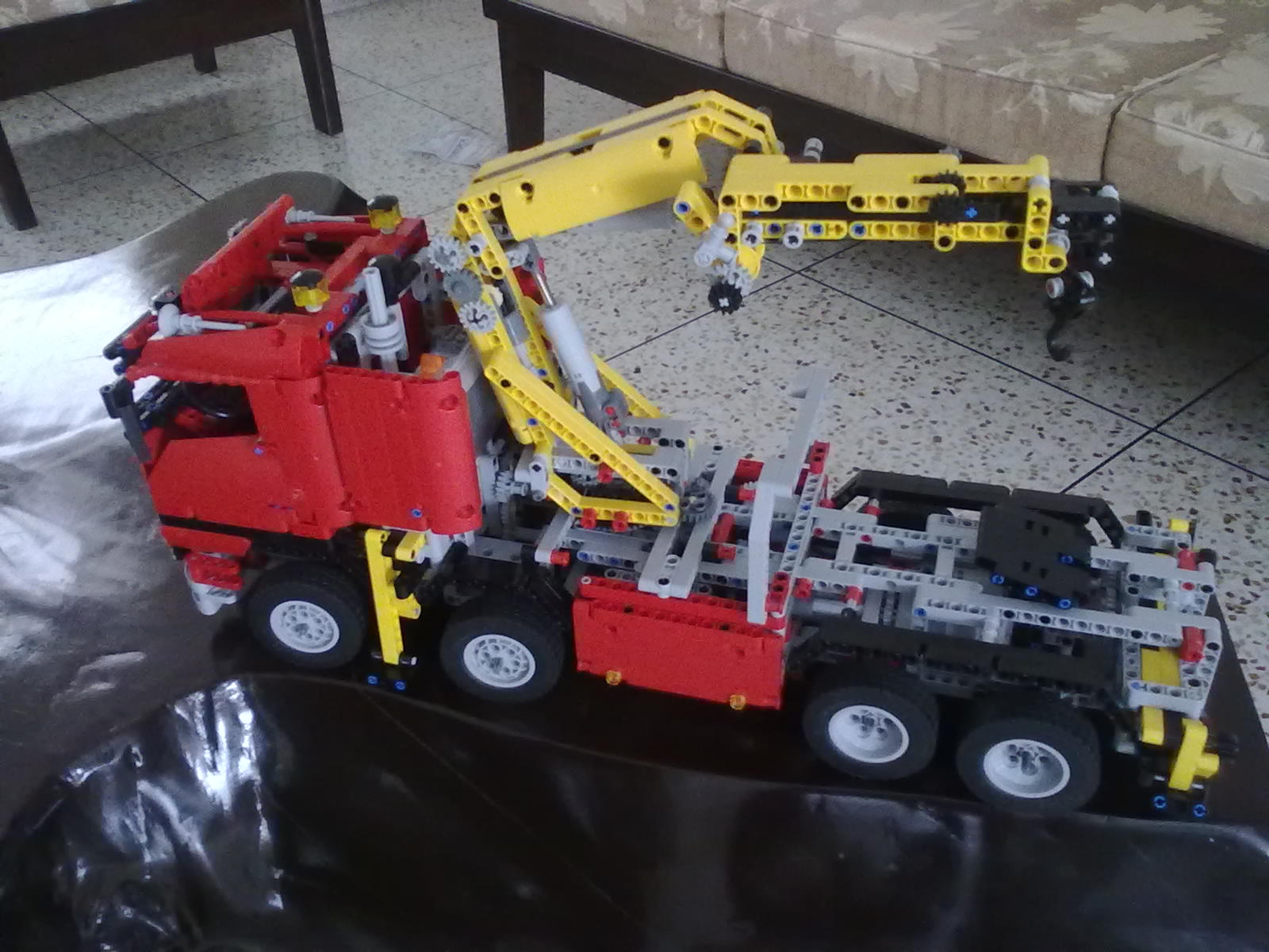 Lego Technic (Crane Truck 8258) from 2009